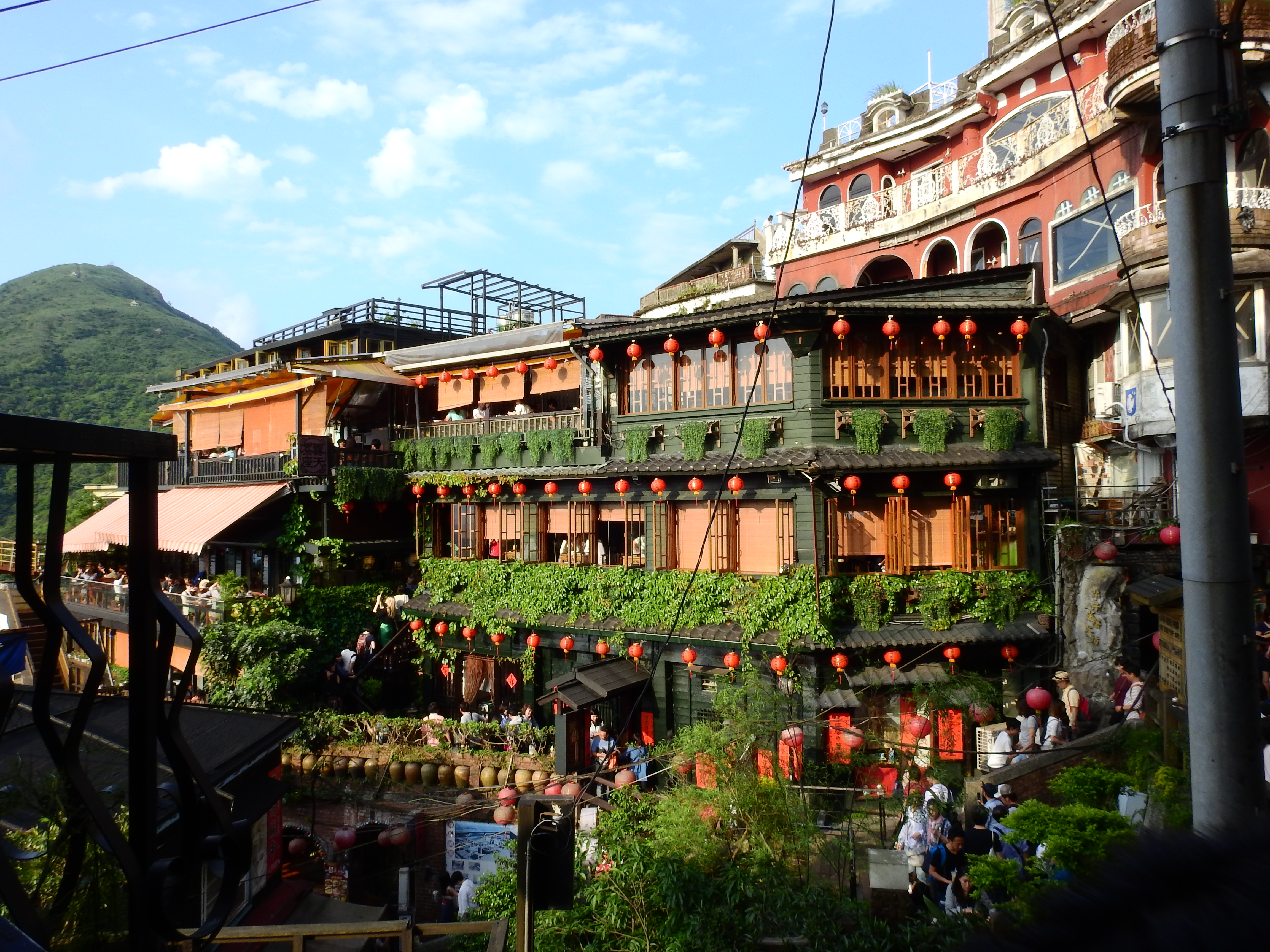 A-Mei Tea House in Jiufen